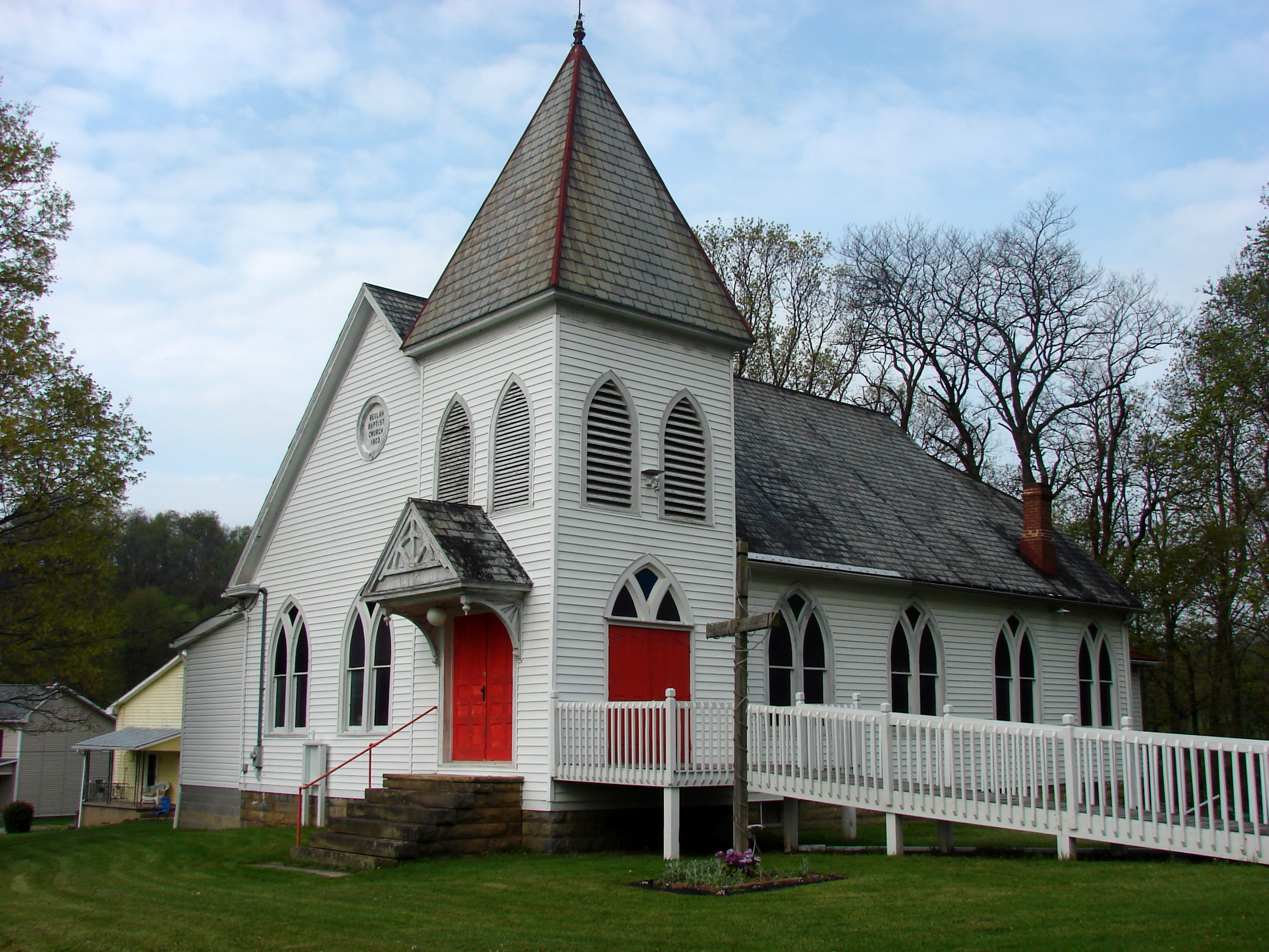 located in Graysville, PA